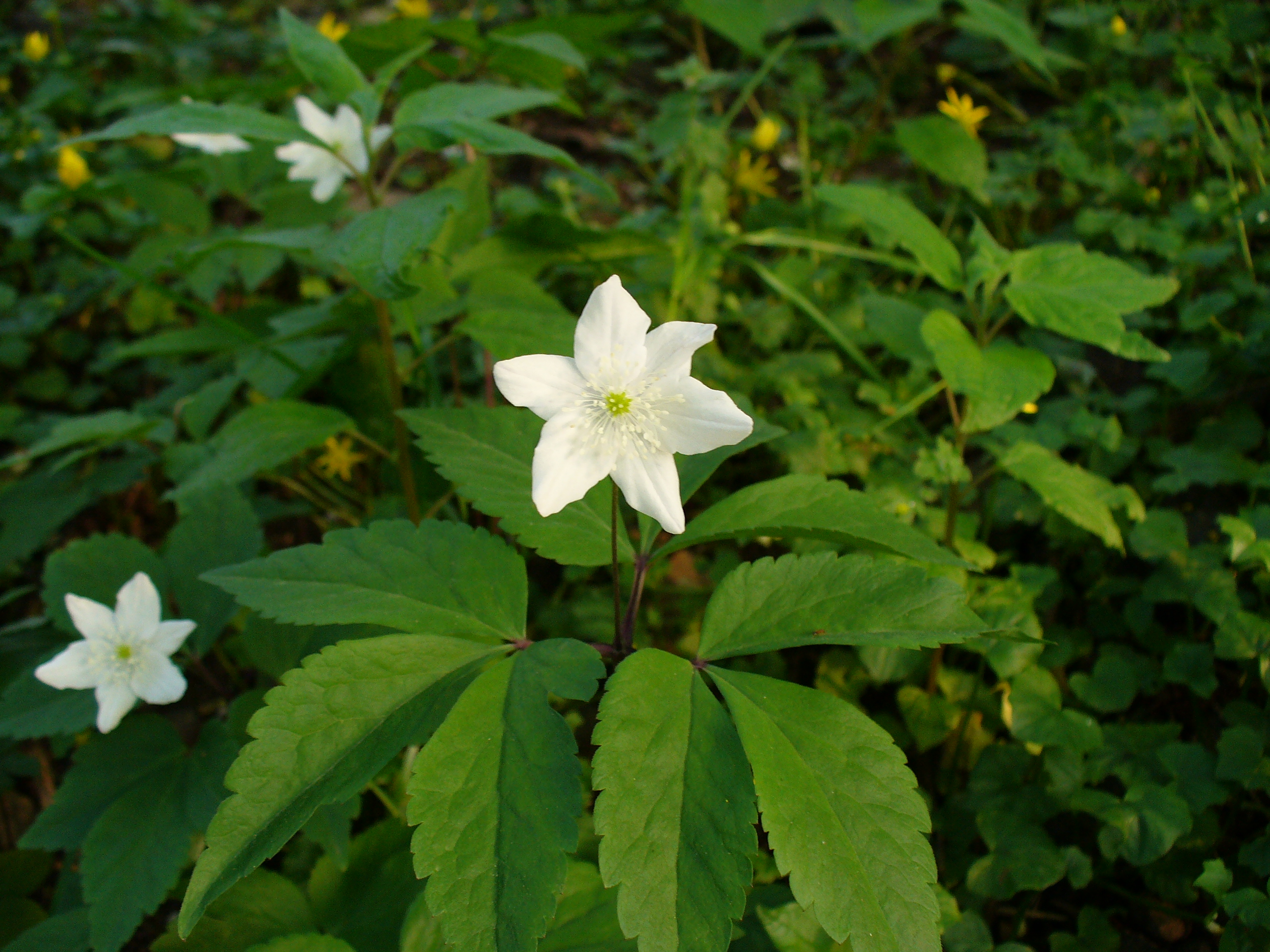 Flower of Anemone trifolia